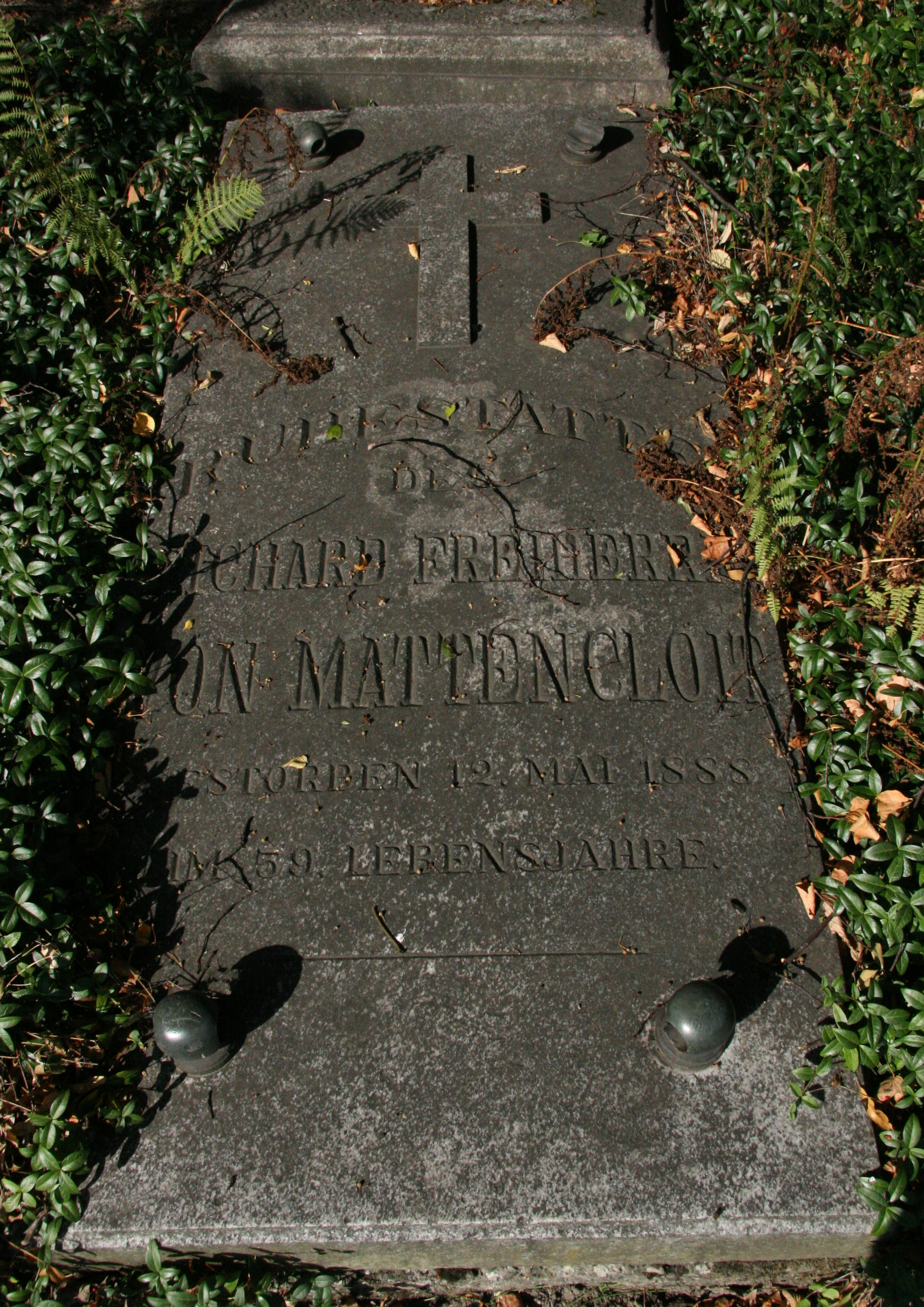 Gravestone of Richard on Mattencloit. Church of the Nativity of the Virgin Mary in Orlová. Karviná District, Moravian-Silesian Region, Czech Republic